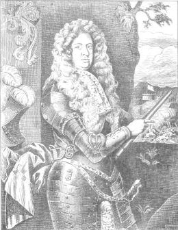 James Butler, 1st Duke of Ormonde (1610-1688).